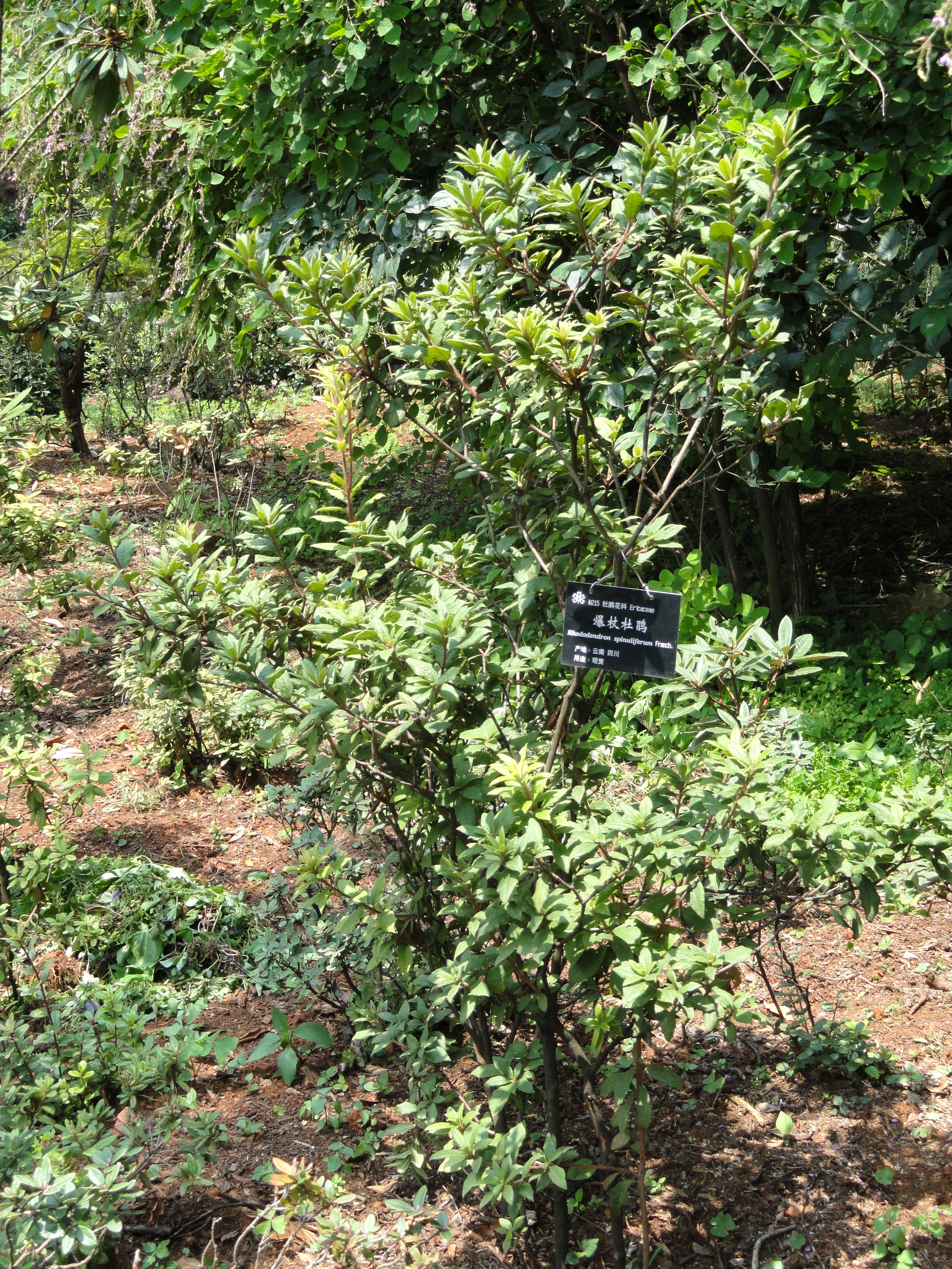 Rhododendron specimen in the Kunming Botanical Garden, Kunming, Yunnan, China.